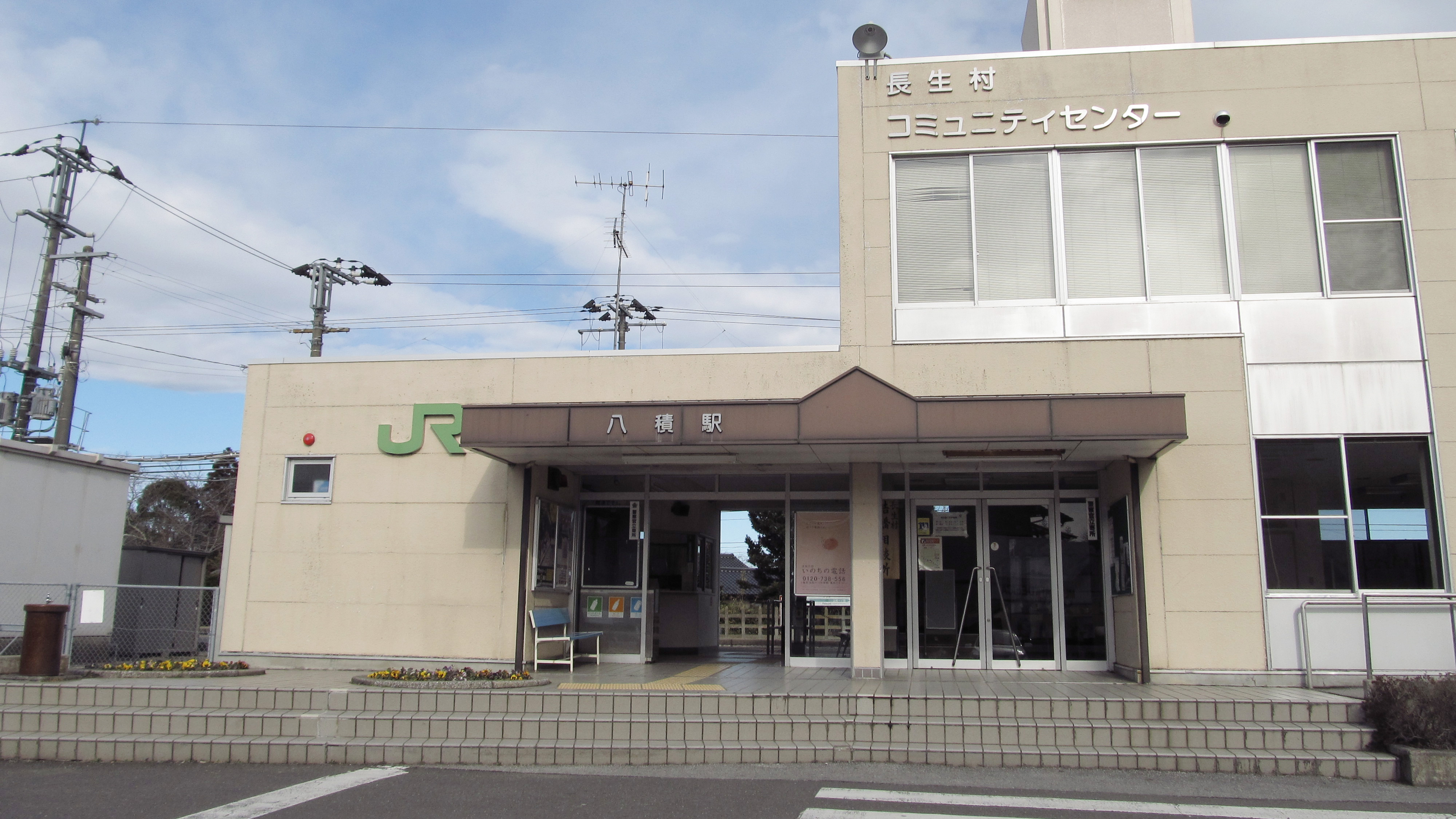 The building of Yatsumi Station on the Sotobō Line in Chōsei village, Chiba prefecture, Japan